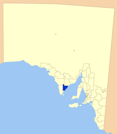 Modification of Astrokey44's original map found here: File:SA_LGA_blank.png Position of Coober pedy LGA